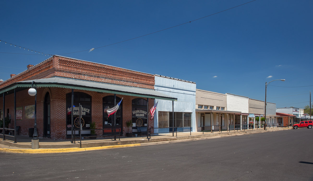 Downtown Sealy, Texas